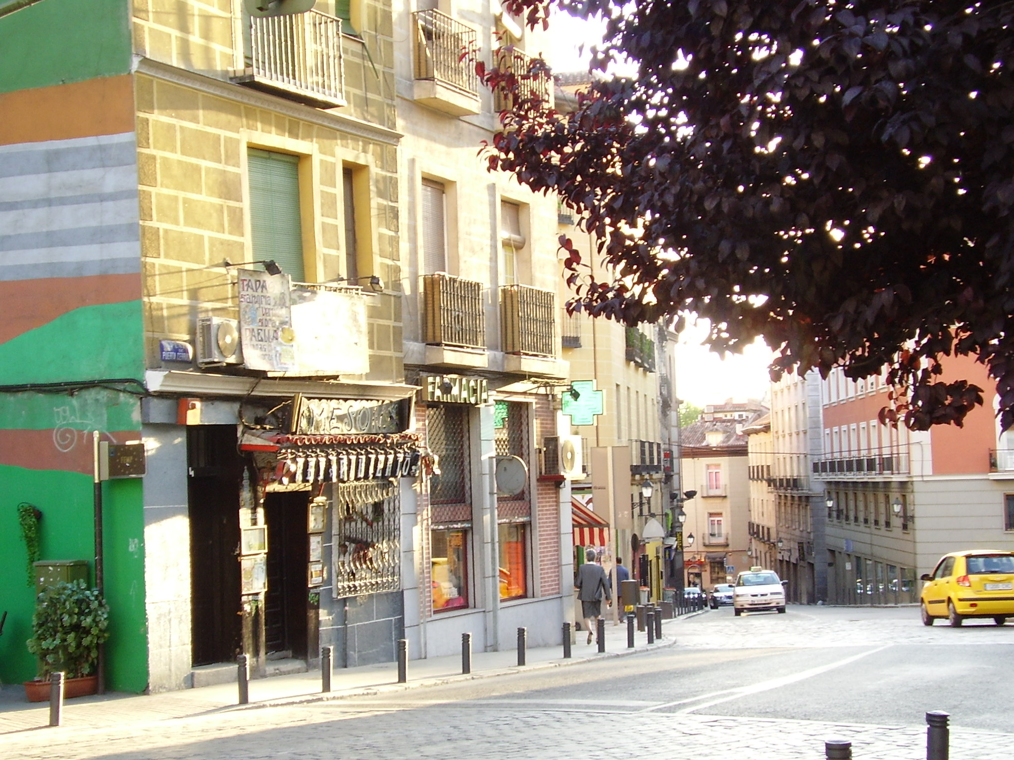 A cosy neighbourhood in the Central district of Madrid.